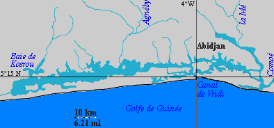 Ébrié Lagoon, with Abidjan, of the Ivory Coast-Côte d'Ivoire.